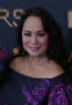 Gloria Diaz as a guest at the Red Carpet event of the Miss Universe 2016